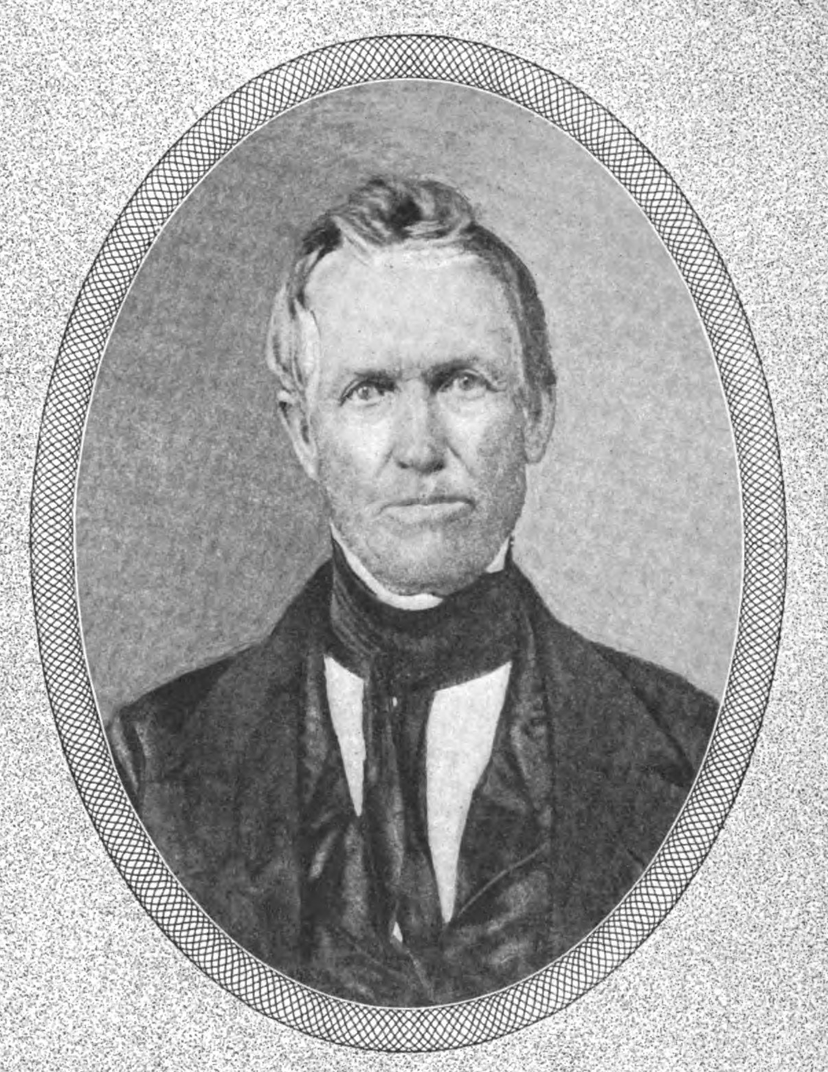 Mark Baker (d. 1865) of Bow, New Hampshire, father of Mary Baker Eddy, founder of Christian Science, from a tintype